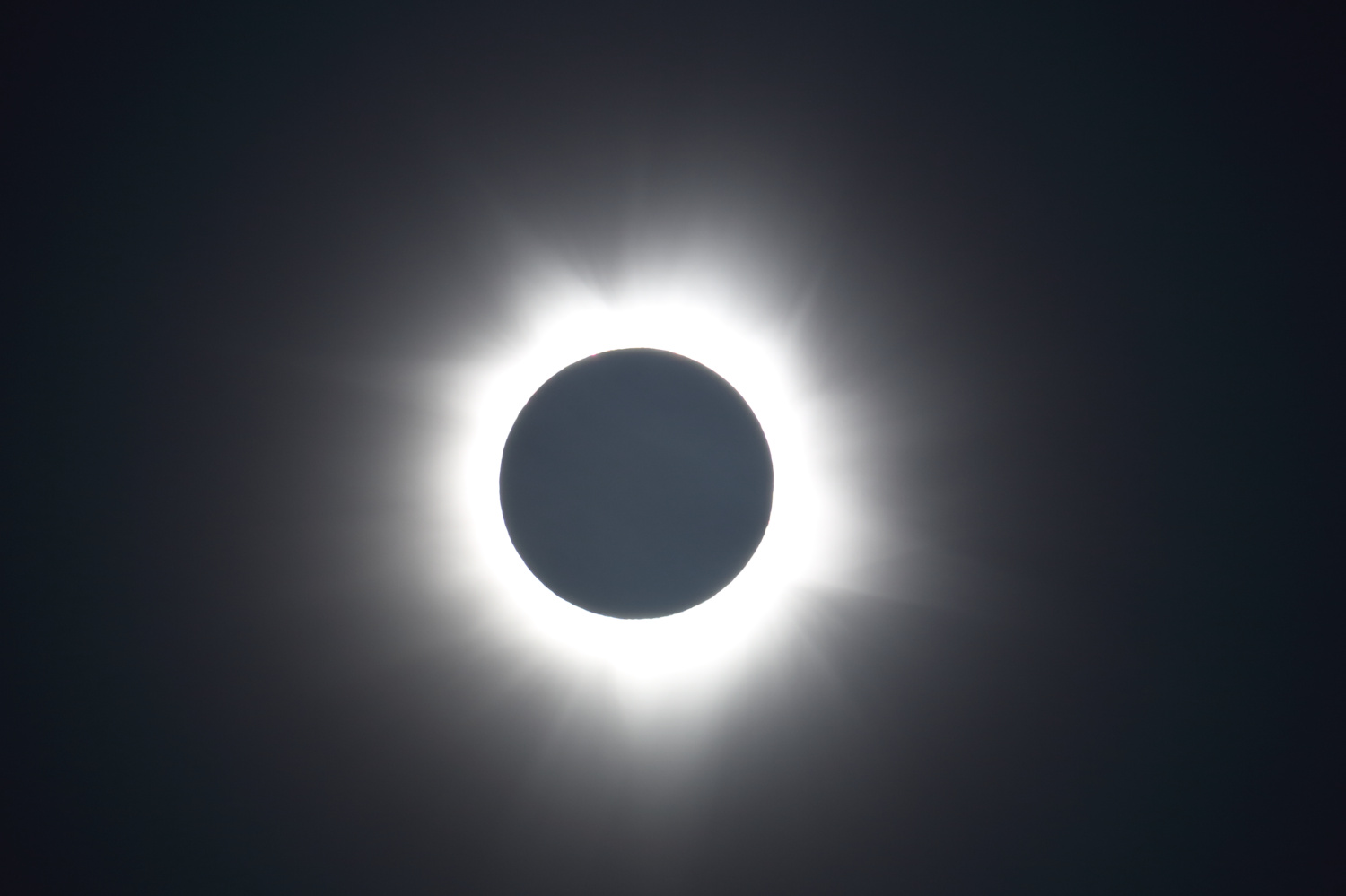 Solar eclipse of 2012 november 14 near Mt Carbine